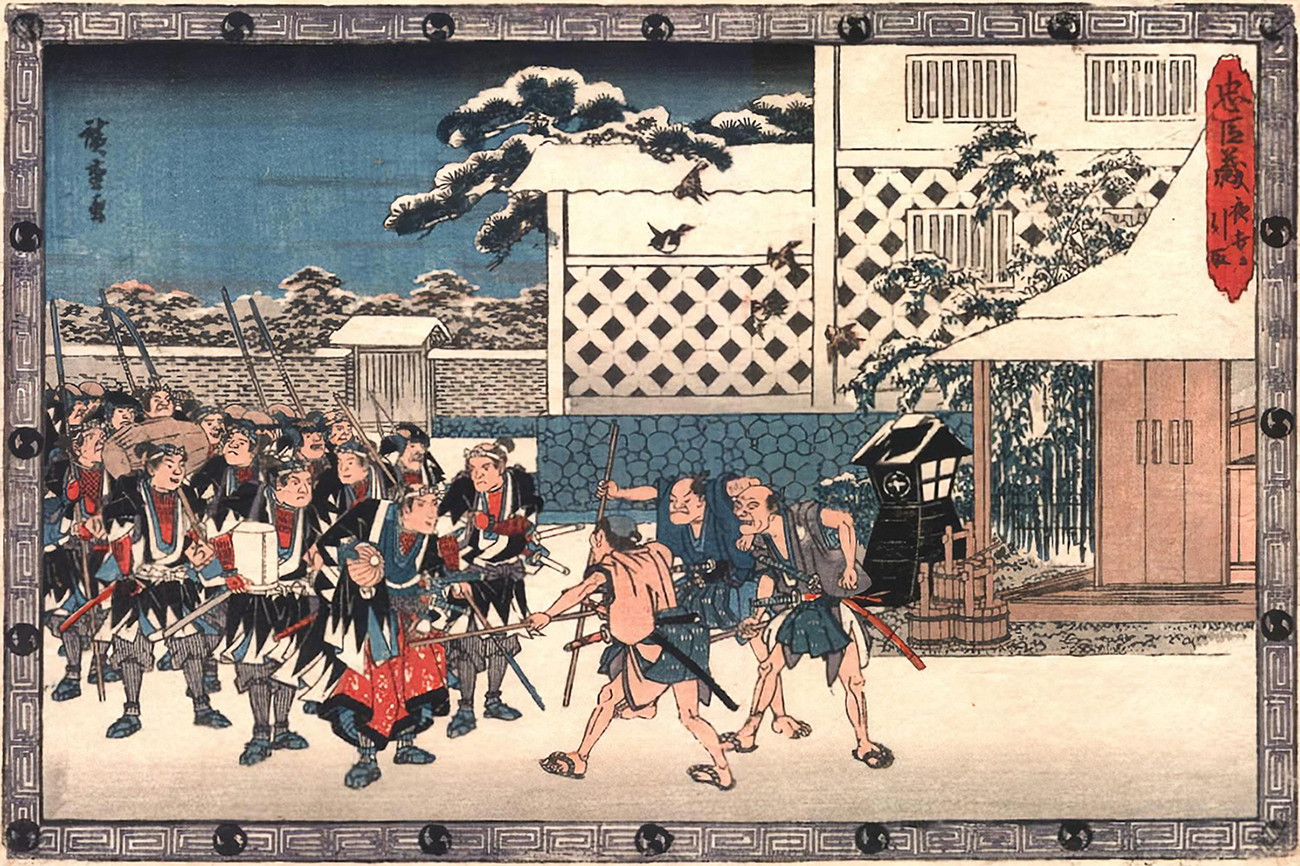 The ronin, on their way back to Sengakuji after the attack on Kira, are halted in the street outside the palace of Matsudaira-no-Kami, Prince of Sendai, by his retainers, to invite them in for rest and refreshment - Chushingura, Act XI, Scene 5 - Hiroshige